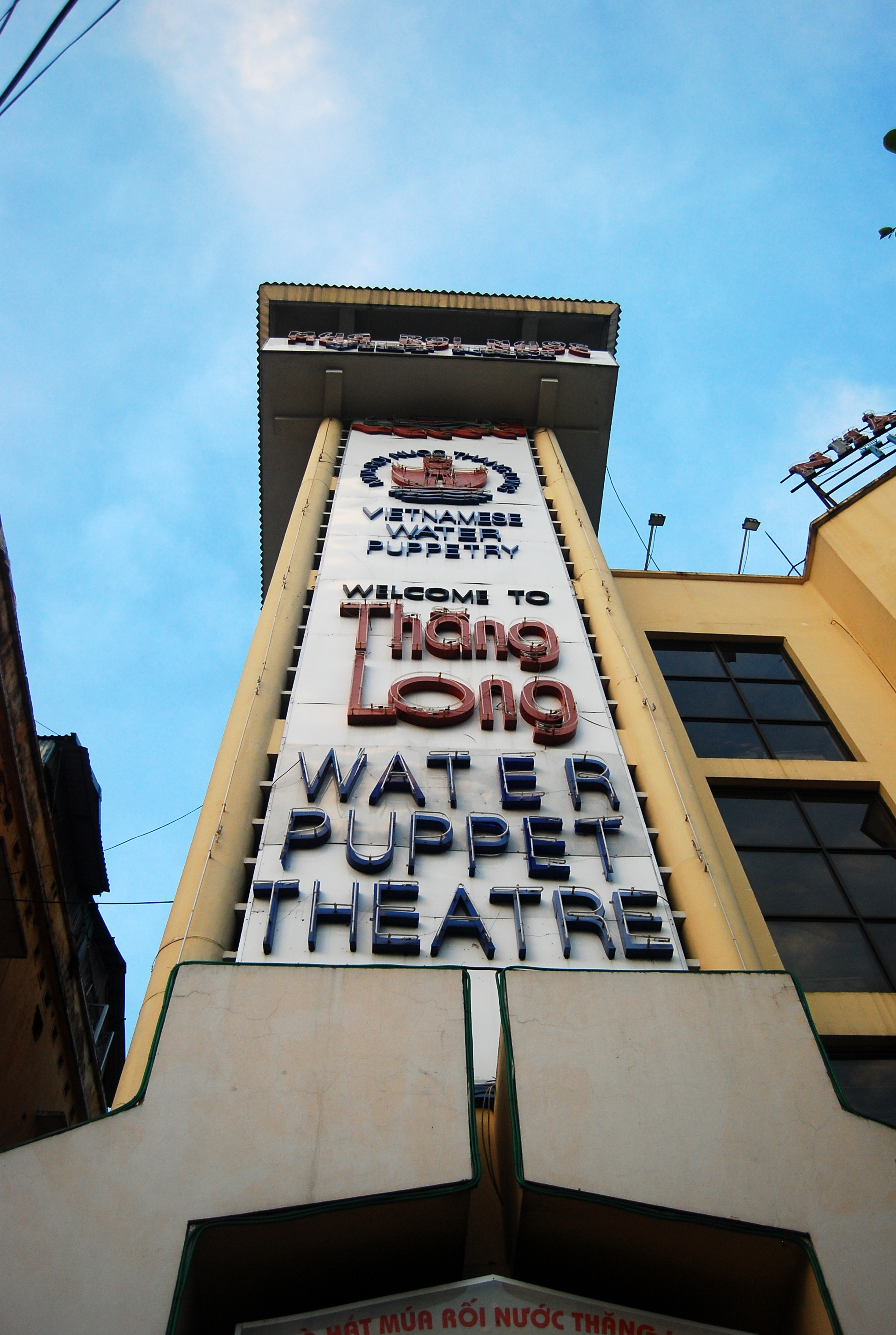 Thang Long Water Puppet Theatre